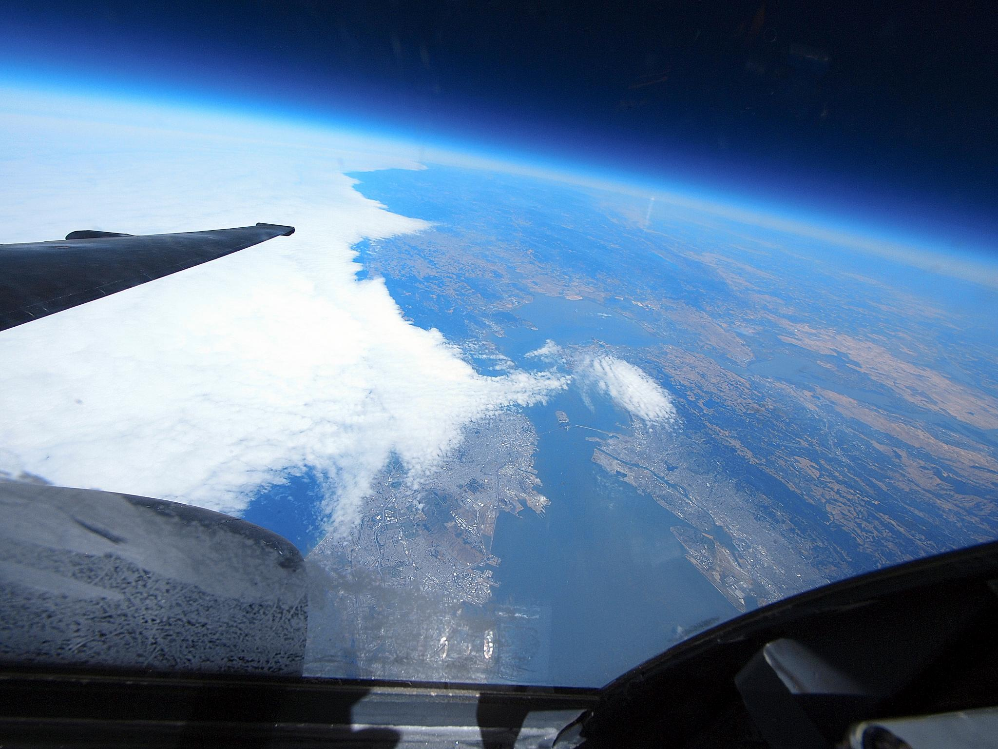 U-2 High Flight